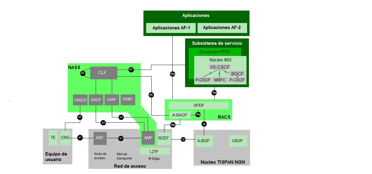 Telecoms & Internet converged Services & Protocols for Advanced Networks (TISPAN)